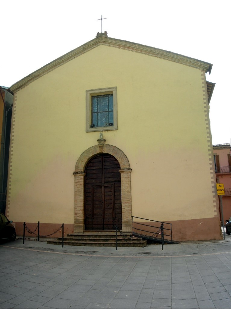 Temple of St Joseph, Bastia Umbra, Perugia, Umbria, Italy